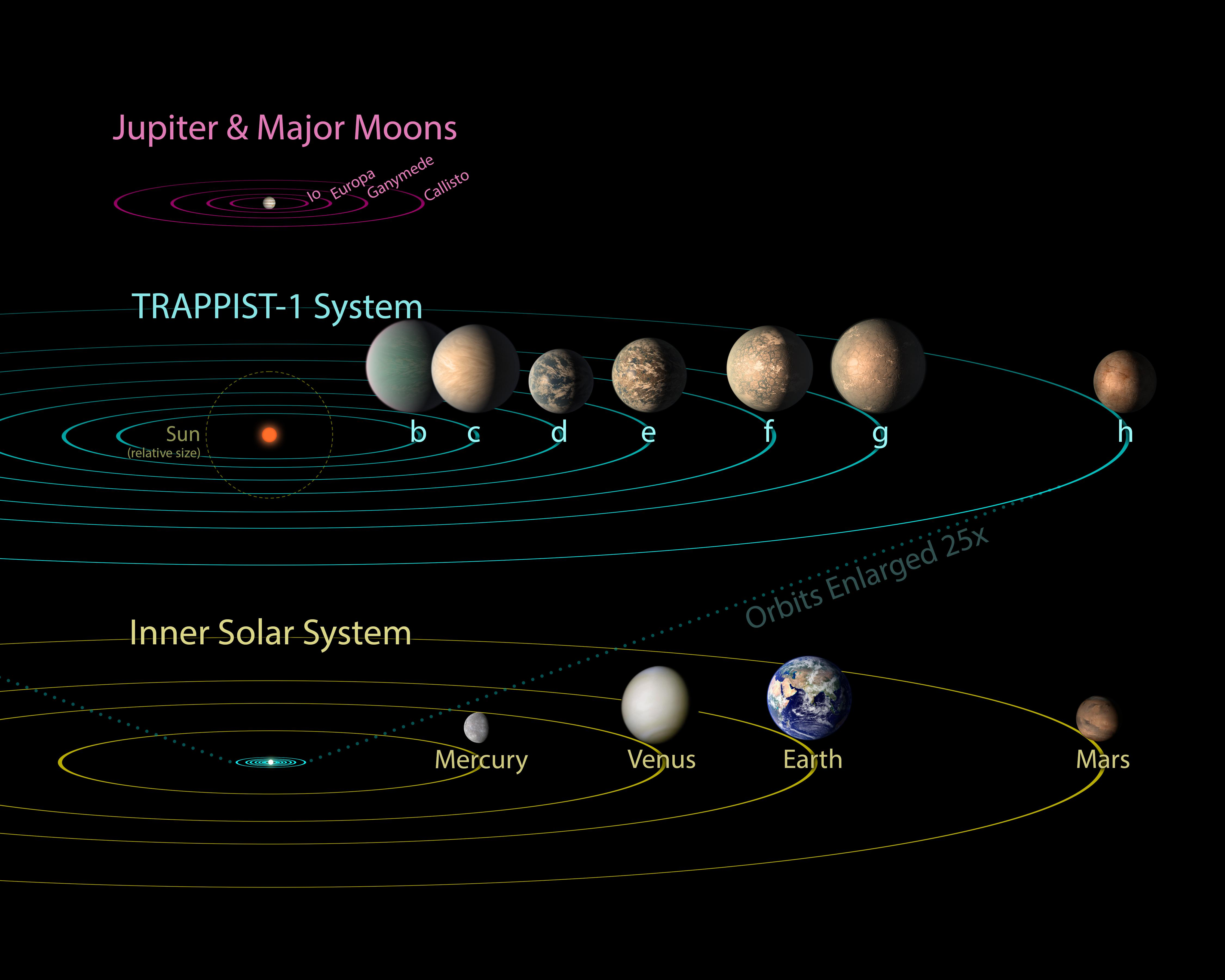 PIA22096: TRAPPIST-1 Compared to Jovian Moons and Inner Solar System - Updated Feb. 2018 All seven planets discovered in orbit around the red dwarf star TRAPPIST-1 could easily fit inside the orbit of Mercury, the innermost planet of our solar system. In fact, they would have room to spare. TRAPPIST-1 also is only a fraction of the size of our Sun; it isn't much larger than Jupiter. So, the TRAPPIST-1 system's proportions look more like Jupiter and its moons than those of our solar system. The seven planets of TRAPPIST-1 are all Earth-sized and terrestrial. TRAPPIST-1 is an ultra-cool dwarf star in the constellation Aquarius, and its planets orbit very close to it. This image is an update to PIA21428, based on more precise measurements of the planets' densities, as of February 2018. NASA's Jet Propulsion Laboratory, Pasadena, California, manages the Spitzer Space Telescope mission for NASA's Science Mission Directorate, Washington. Science operations are conducted at the Spitzer Science Center at Caltech, also in Pasadena. Spacecraft operations are based at Lockheed Martin Space Systems Company, Littleton, Colorado. Data are archived at the Infrared Science Archive housed at Caltech/IPAC. Caltech manages JPL for NASA. For additional information about the Spitzer mission, visit and For additional information on the Kepler and the K2 mission, visit For additional information about exoplanets, visit